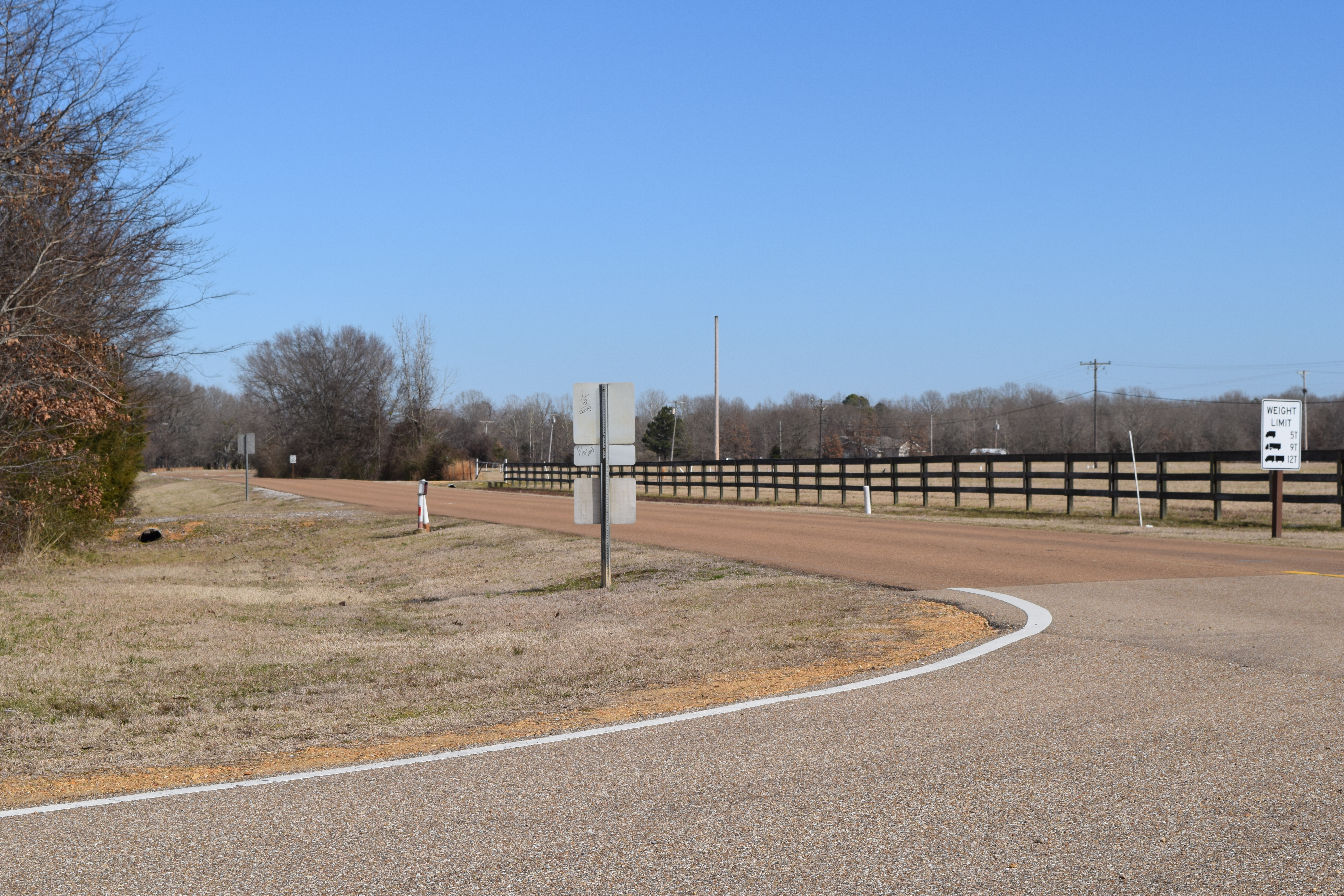 Looking northeast on Mississippi Highway 332 from L.D. Boone Airport Road in Grenada, Mississippi